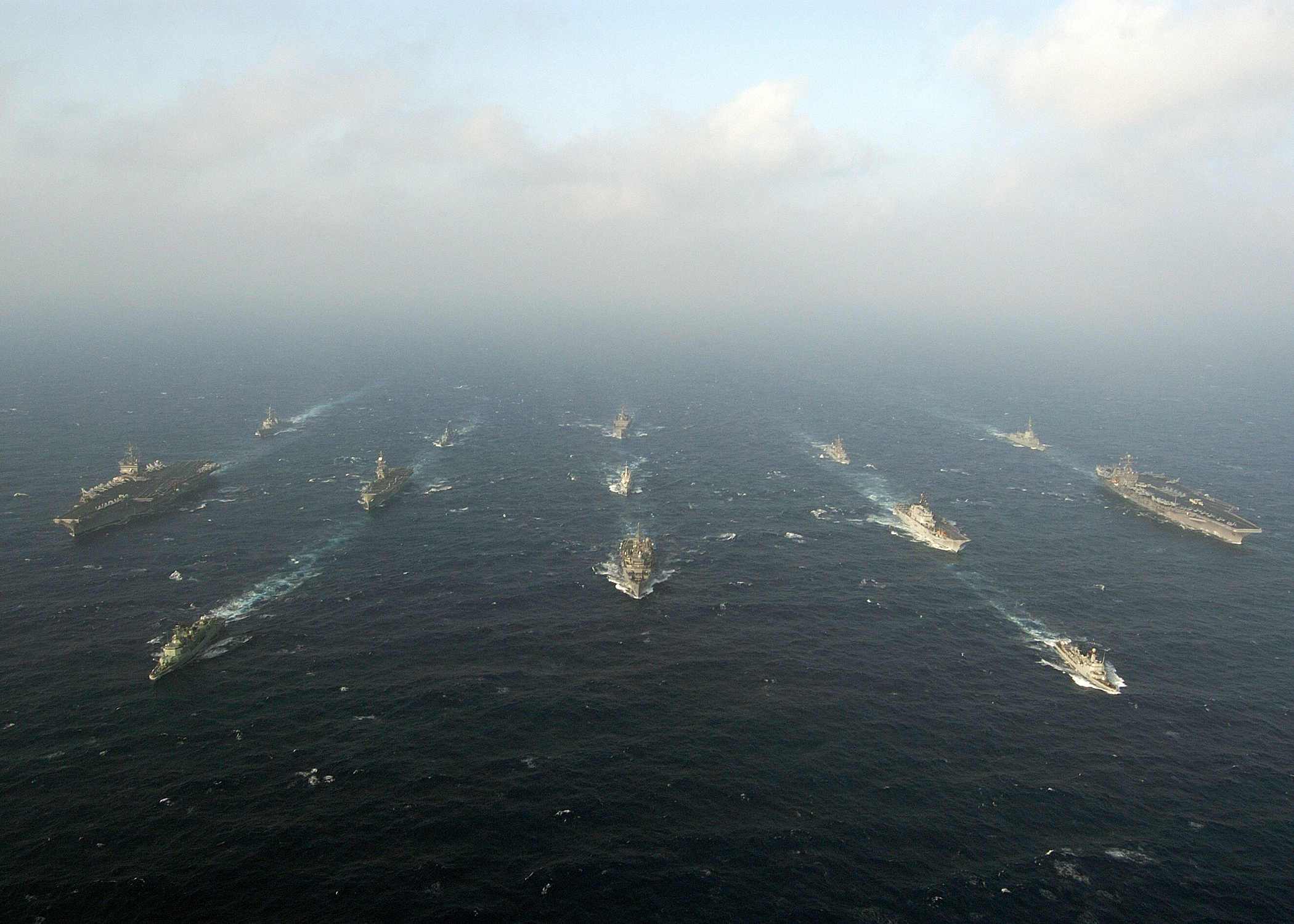 Atlantic Ocean (July 12, 2004) - USS Enterprise (CVN 65), left, and USS Harry S. Truman (CVN 75), right, steam through the waters of the Atlantic Ocean in formation with other US Navy ships and multi-national warships as part of Majestic Eagle 2004. Enterprise and Truman are also part of the seven carriers involved in Summer Pulse 2004, the simultaneous deployment of seven carrier strike groups (CSGs), demonstrating the ability of the Navy to provide credible combat across the globe, in five theaters with other U.S., allied, and coalition military forces. Summer Pulse is the Navy's first deployment under its new Fleet Response Plan (FRP). U.S. Navy photo by Photographer's Mate Airman Joshua E. Helgeson (RELEASED) For more information go to